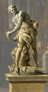 Depiction of Bernini's David (1623-4) in Giovanni Paolo Pannini's Picture gallery with views of modern Rome (1759). Adjustments made: cropped, background exposure dimmed, and contrast in the sculpture heightened.